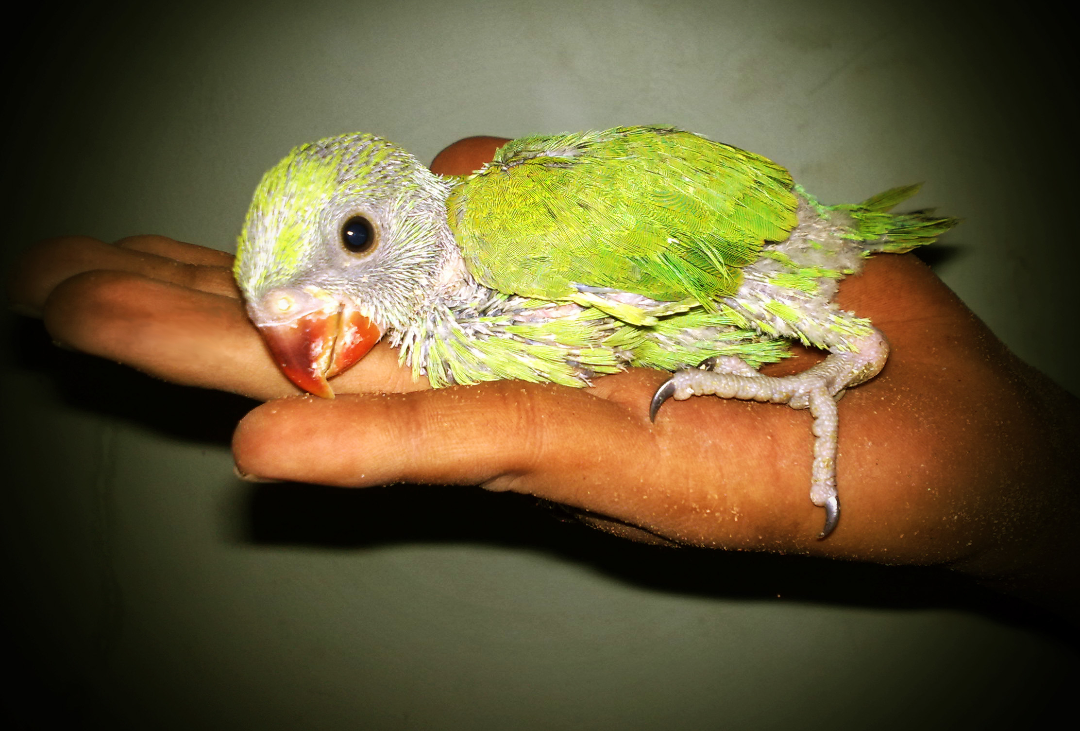 A young chick Alexandrine Parakeet held on the palm of a hand. Probably about 4 to 5 weeks old from hatching and kept in Trivandrum, India.